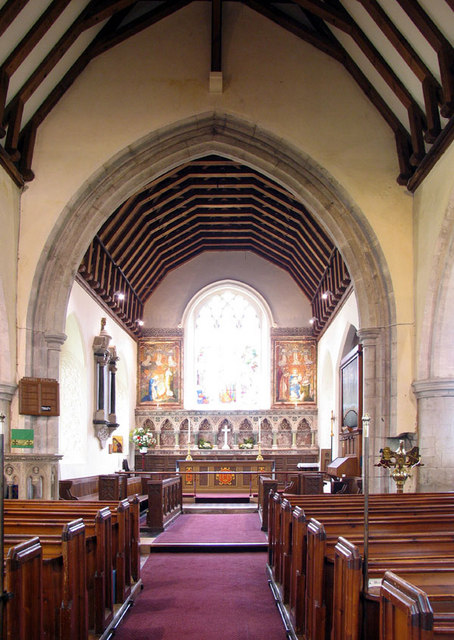 All Saints, Boxley, Kent - East end